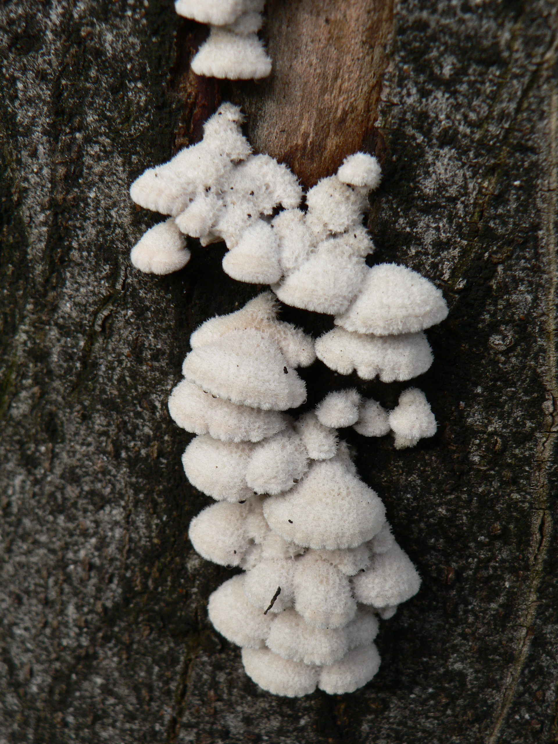 Schizophyllum commune